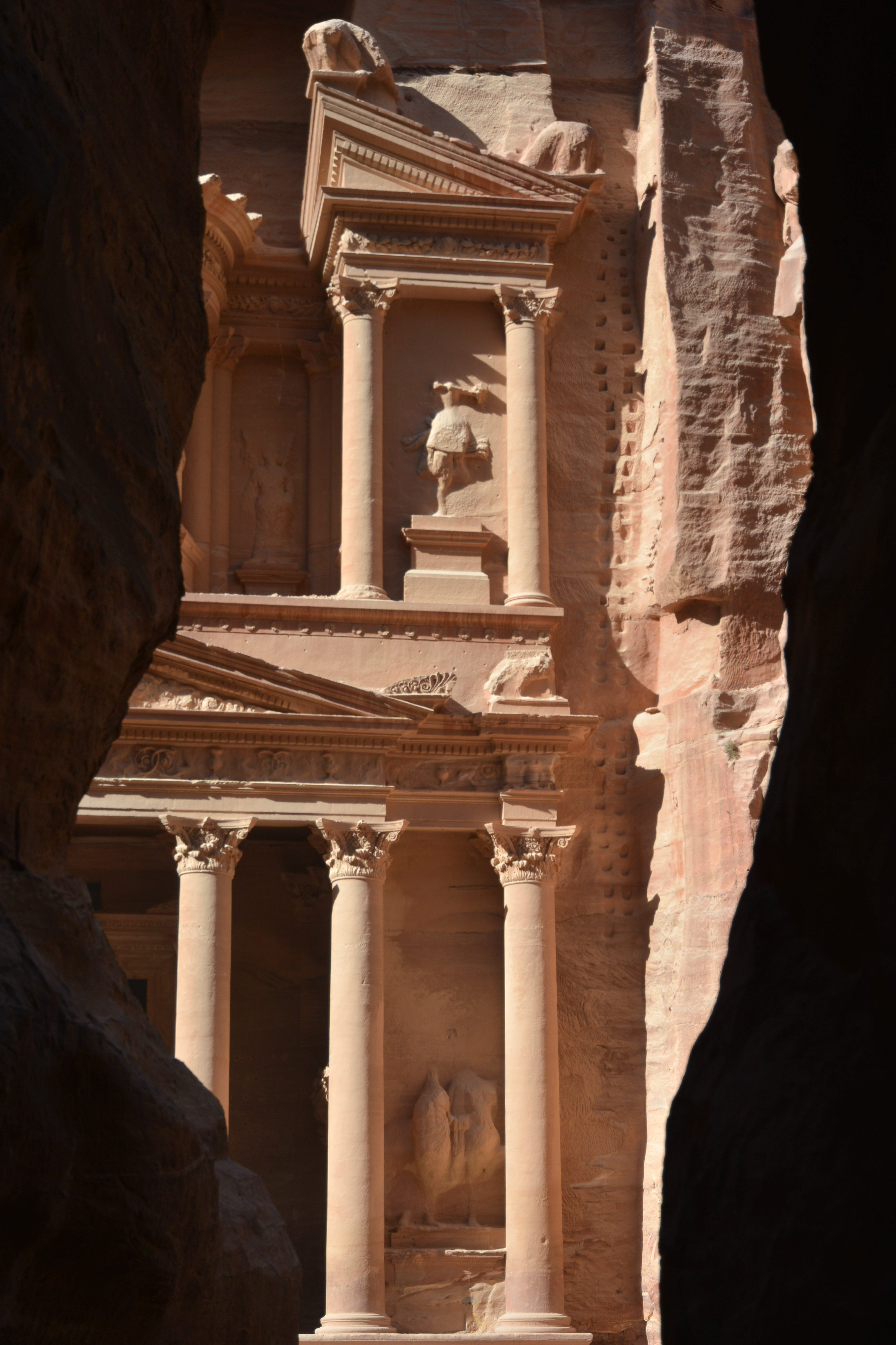 First vision of Al Khazneh, when exiting the Siq, the narrow and dim gorge leading to Petra.